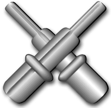 US Navy Gunner's Mate (GM). Crossed gun barrels; muz­zles up.